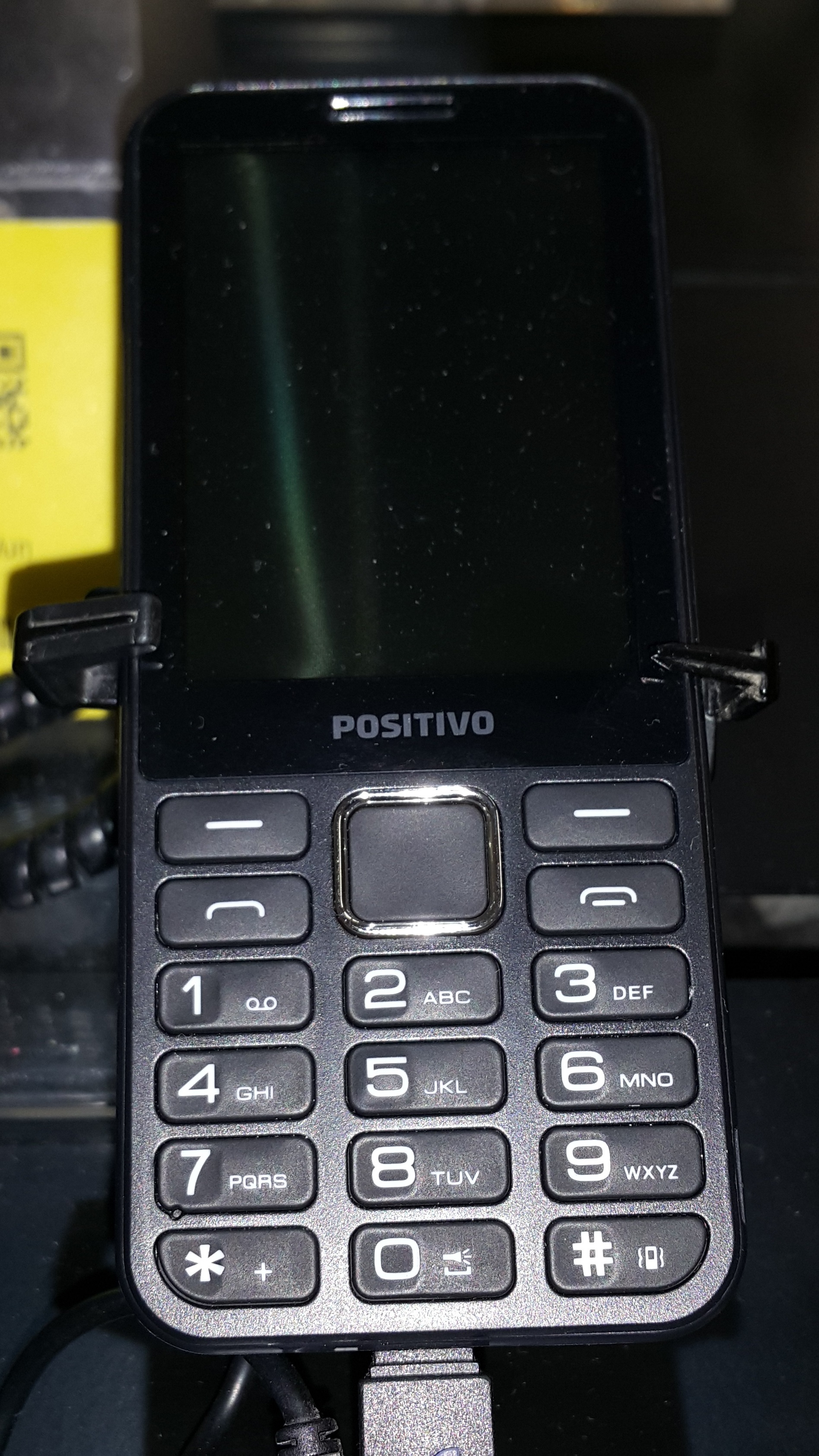 A Positivo P28 cellphone on sale at a Carrefour Hypermarket, in Taubaté, São Paulo, Brazil. The model was released on march 2016.